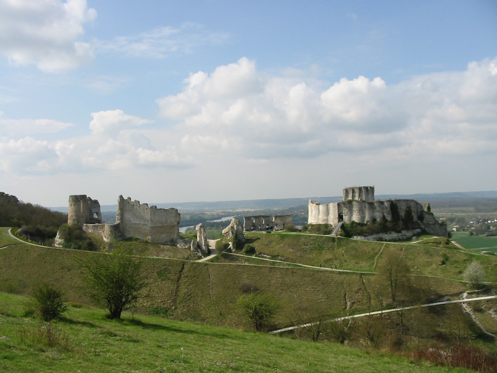 Chateau gaillard (France, Normandy)